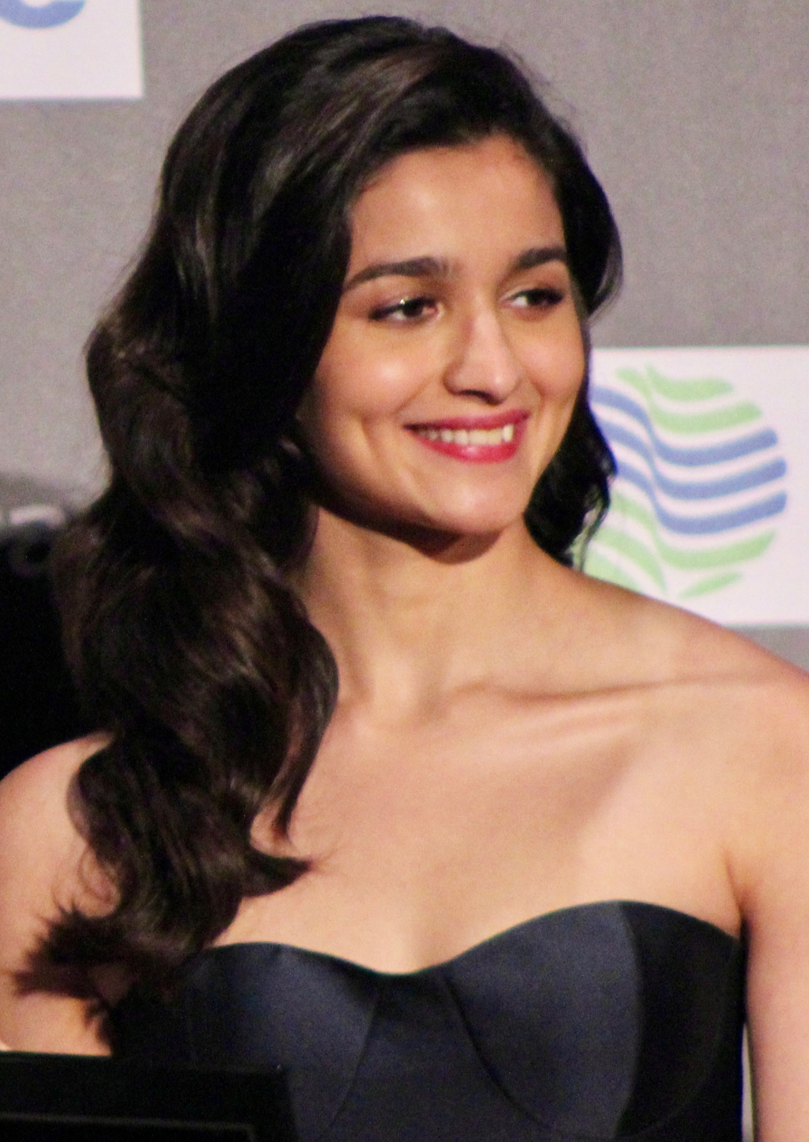 Alia Bhatt at the IIFA Awards 2017